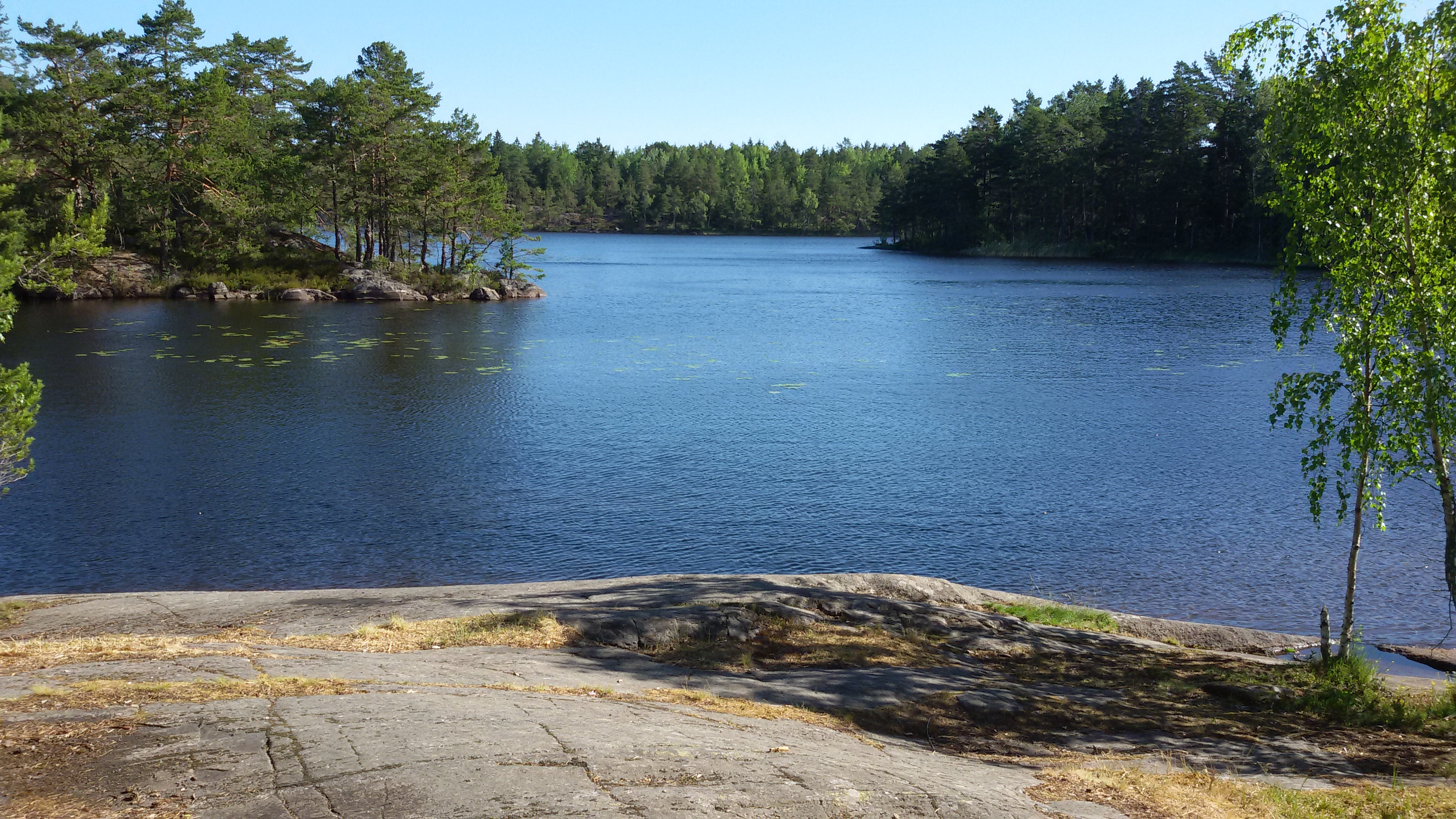 Björnträsket is a lake on the island of Ingarö in the Stockholm archipelago, Sweden.